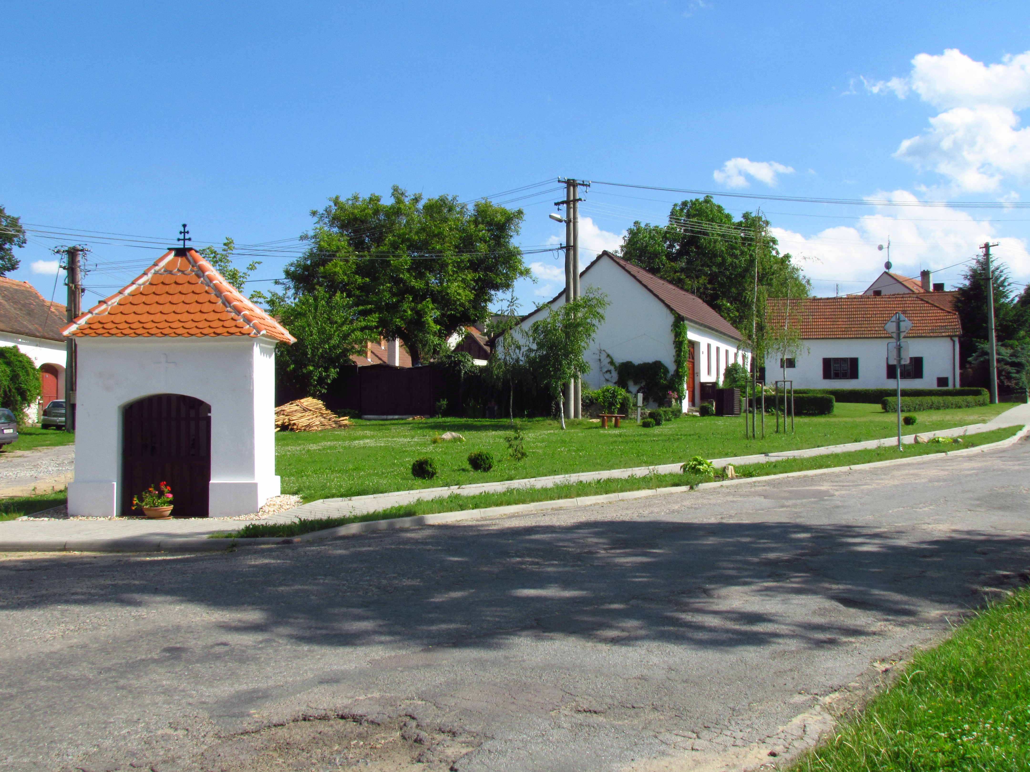 Center of Bačice, Třebíč District